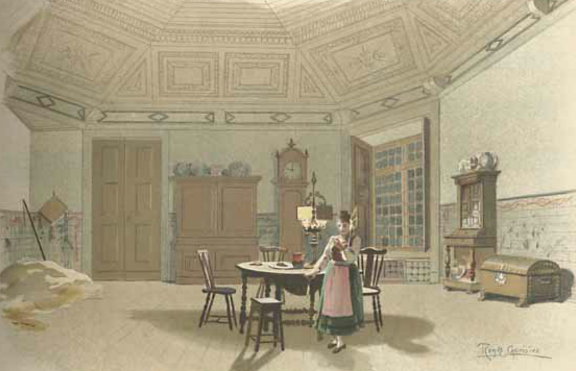 Watercolour of "Serrana", Act II, Scene 2 - "When my eyes saw you..."